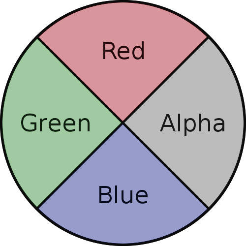 An image illustrating the use of an alpha channel both for anti-aliasing of transparency and for translucency